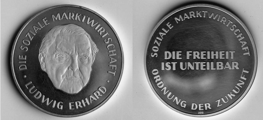 Title: Gedenkmünze Ludwig Erhard Factual corrections and alternative descriptions are encouraged separately from the original description. Additionally errors can be reported at this page to inform the Bundesarchiv. Original historic description: Gedenkmünze: Ludwig Erhard Die Soziale Marktwirtschaft